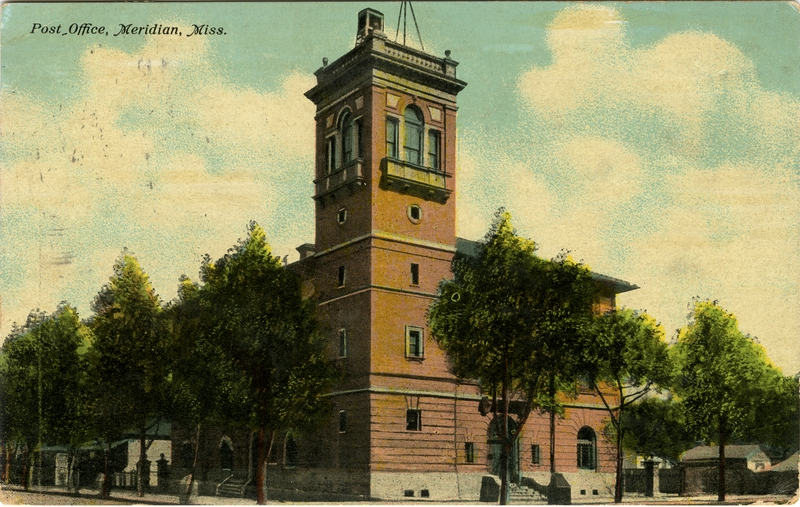 Original courthouse, constructed in 1898, in Meridian, Mississippi. The building was replaced in 1933 and demolished in the 1950s.